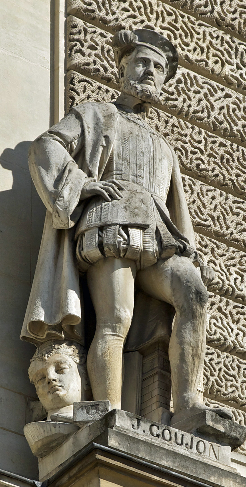 Statue of Jean Goujon, located on the facade of the Sully wing of the Louvre Palace in Paris, France